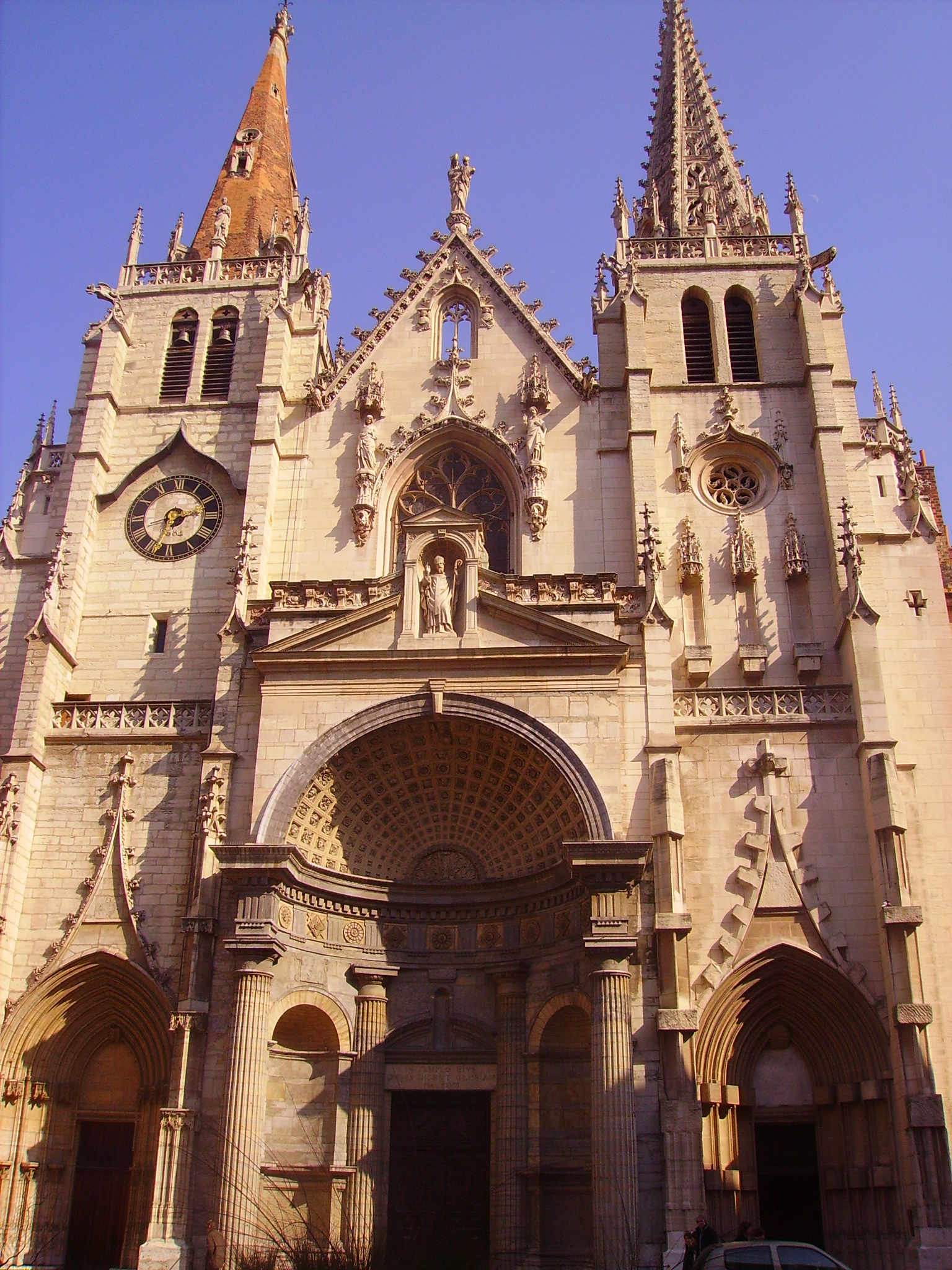 Facade of St. Nizier, Lyon